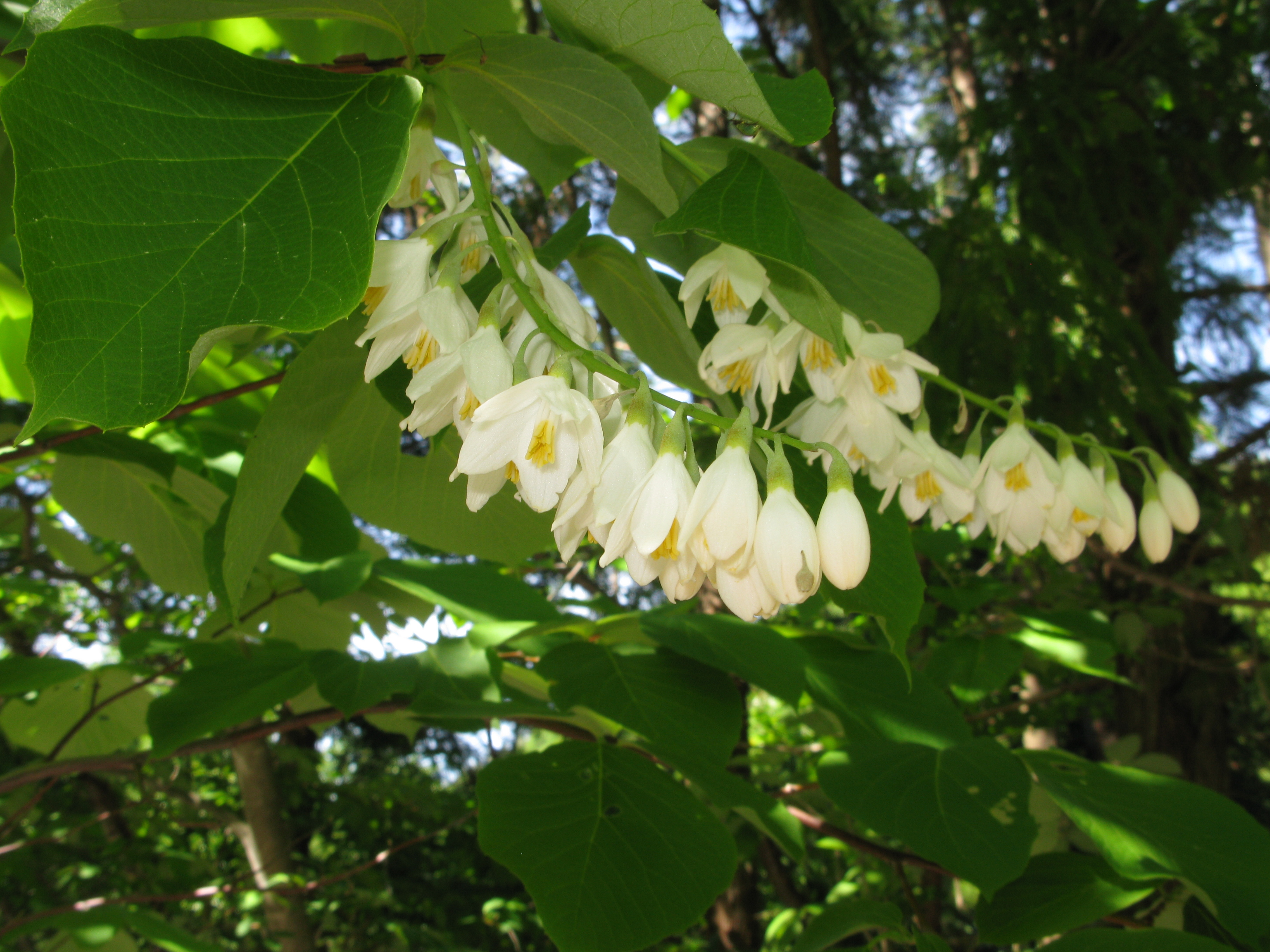 Styrax obassia, Aizu area, Fukushima pref., Japan